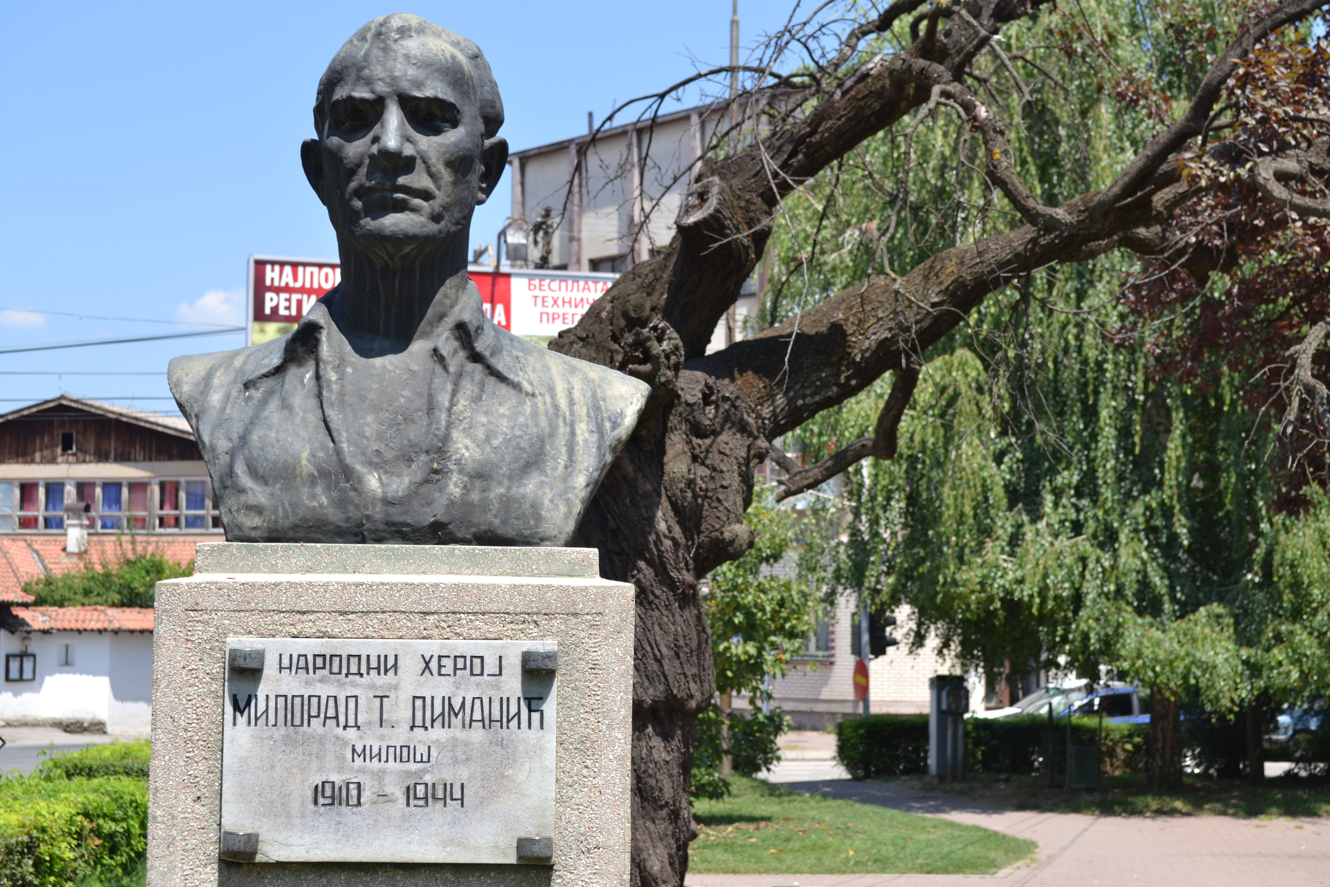 Биста Милорада Диманића у Власотинцу